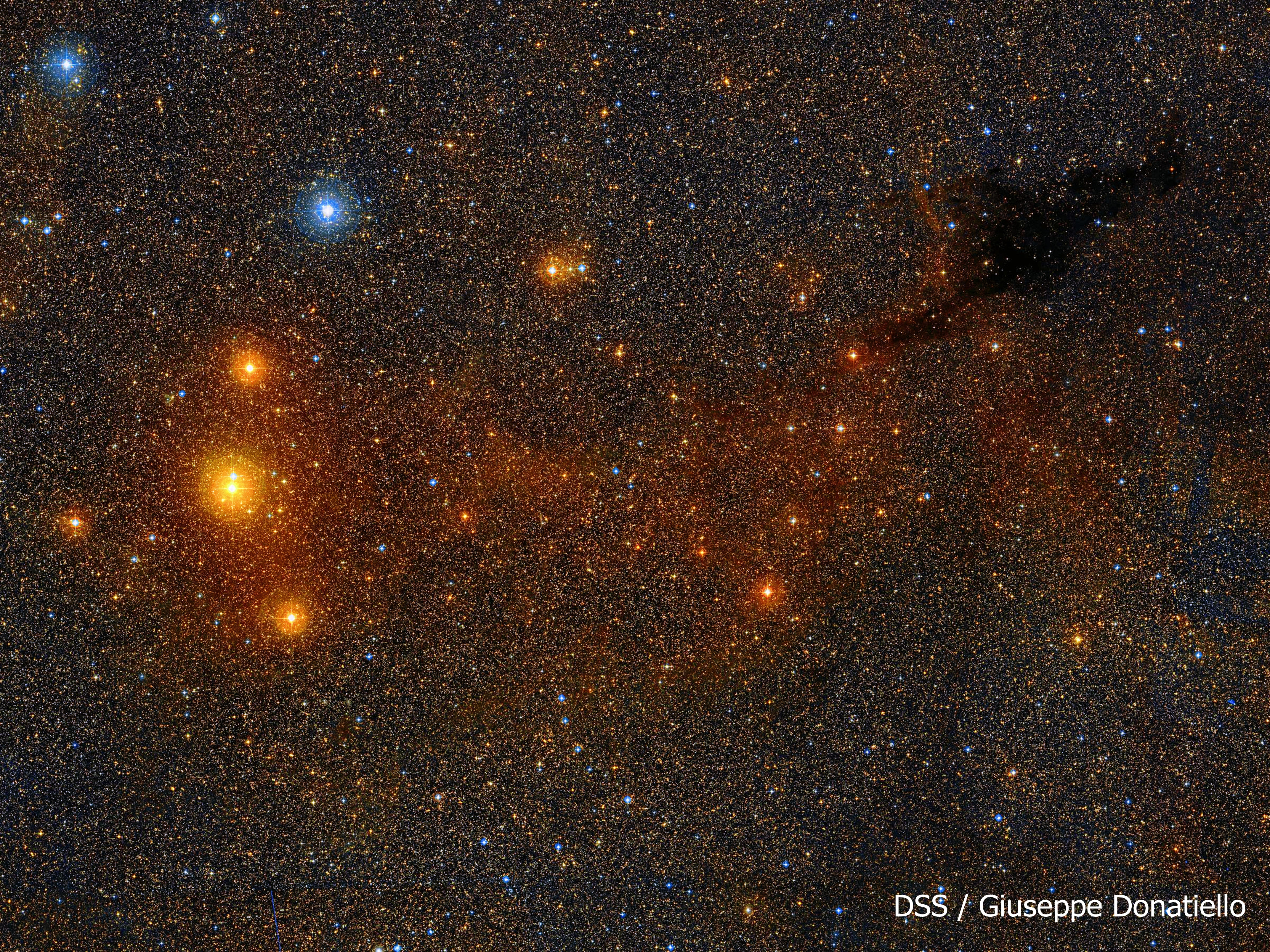 Starfield around HD 85622, in the Vela constellation. Credit: DSS / Giuseppe Donatiello (J2000) RA 09h 51m 40.66814s Dec −46° 32′ 51.4376″ HD 85622 (also known as m Velorum) is a young yellow supergiant star in Vela at 1050 light-years. Its apparent magnitude is 4.59.